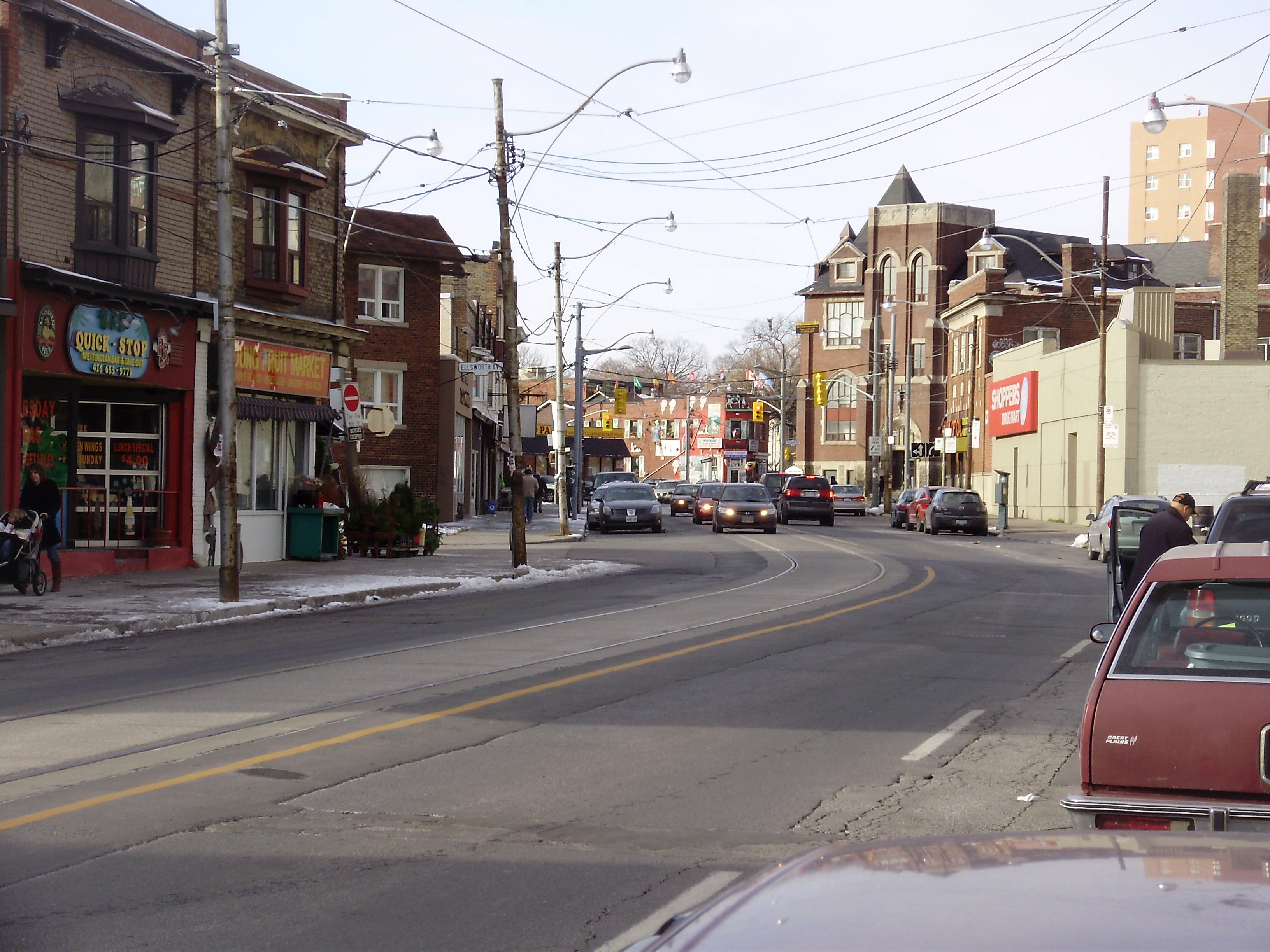 Between Bathurst Street and St. Clair Avenue West, Vaughan Road runs northwest-southeast and carries a single streetcar track linking the St. Clair streetcar line with the rest of the system. Photo taken southeast of its intersection with Ellsworth Avenue in Toronto, Ontario, Canada.